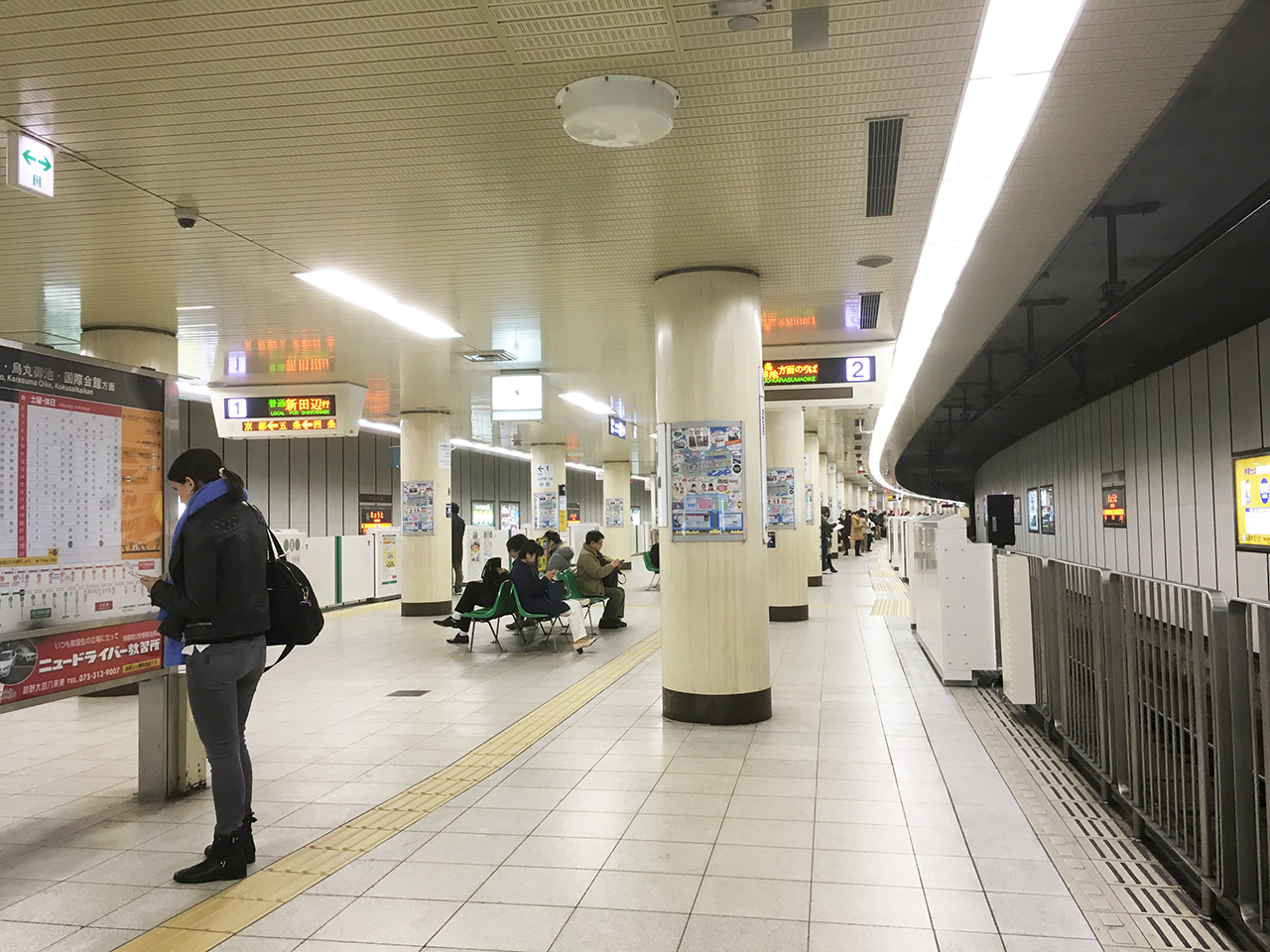 A platform of Kyoto Station